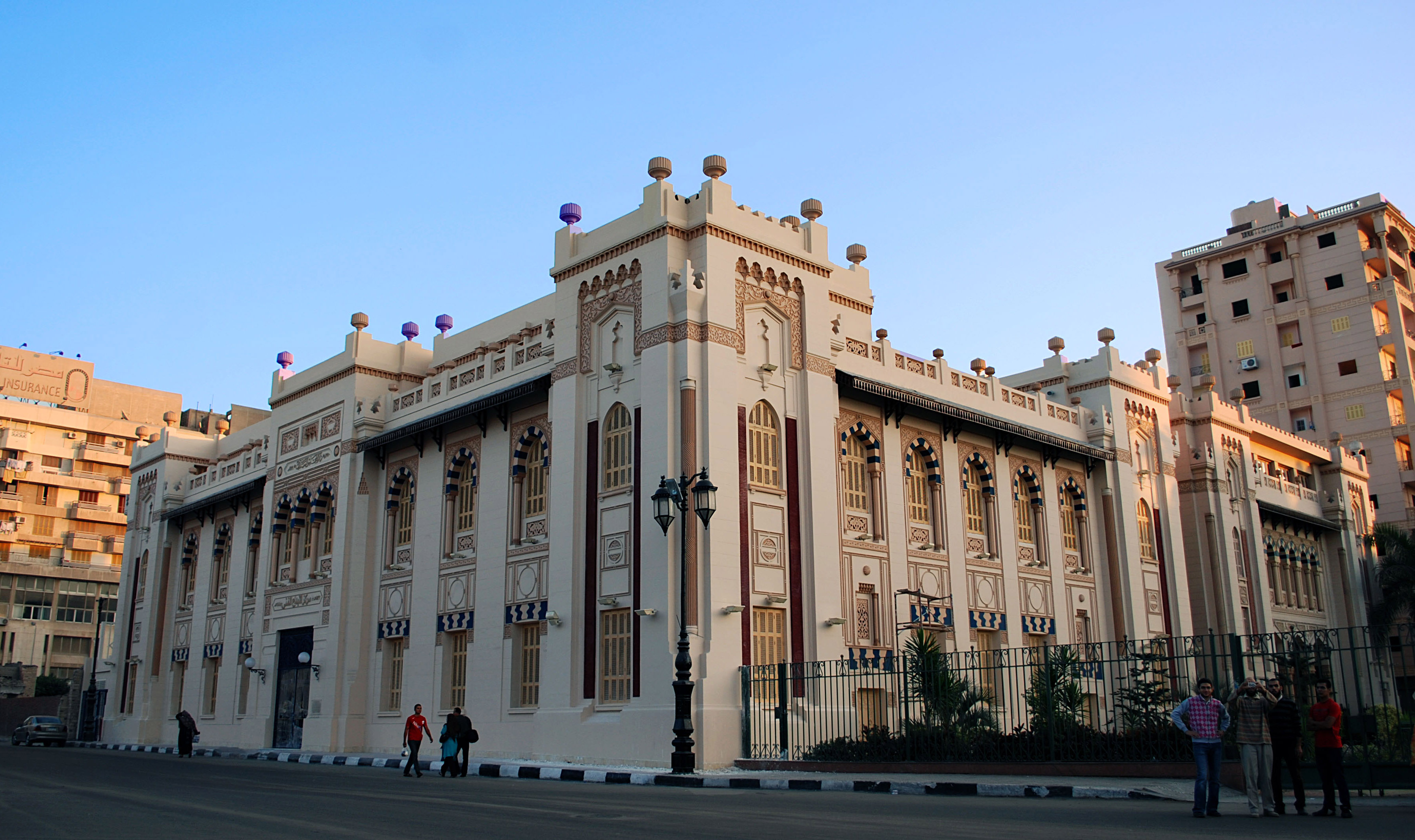 دار اوبرا دمنهور ومركز الابداع ( دار البلدية سابقاً )